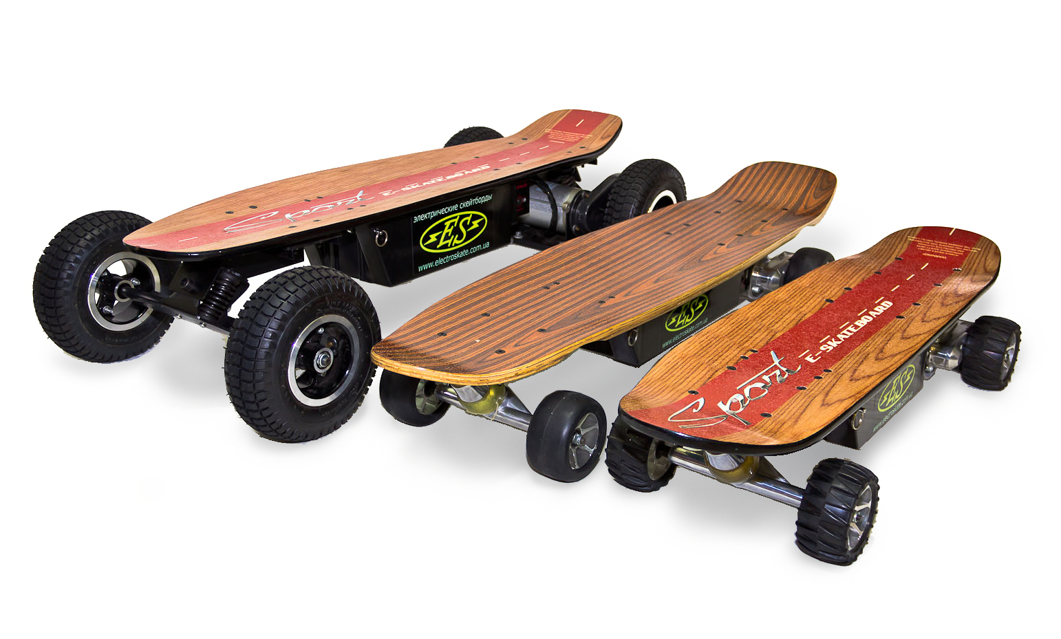 Comparison of the three types of electric skateboards with power of electric motors 800,600, and 400 watts